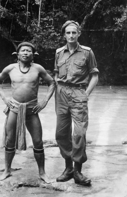 Major Gordon Carter and Dita Bala, a Kelabit penghulu (chief), from Long Dati during Operation Semut on Borneo, 1945